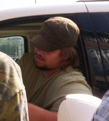 Mark Tauscher signing autographs while leaving the players parking lot at Lambeau Field